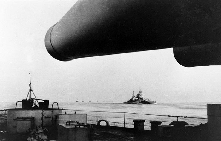 Italian Fleet arrives at Malta, 10 September 1943 HMS Valiant leads the line as the Italian fleet steams into Malta, under the terms of the Italian Armistice. The scene is framed by the after 15-inch guns of HMS Warspite. Photograph from the Army Signal Corps Collection in the U.S. National Archives.